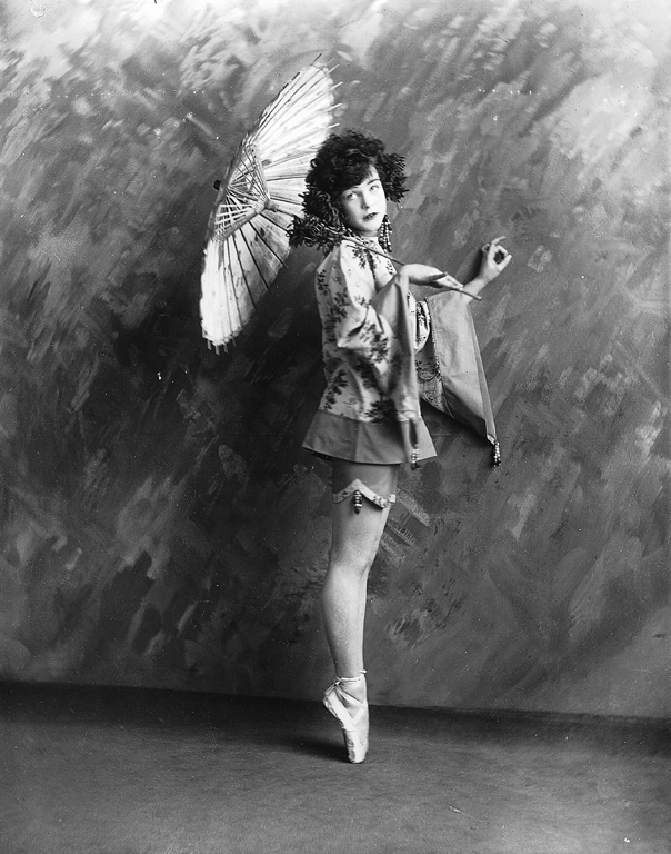 Miss Finney dancing, Montreal, QC, 1923